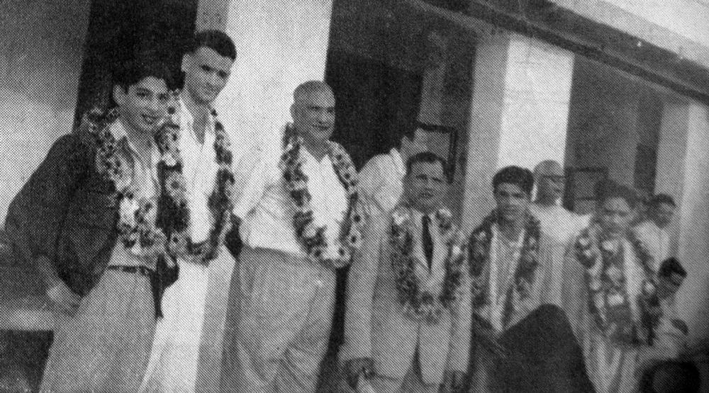 JK Seal with Indian boxing team in Helsinki, 1952 Olympics